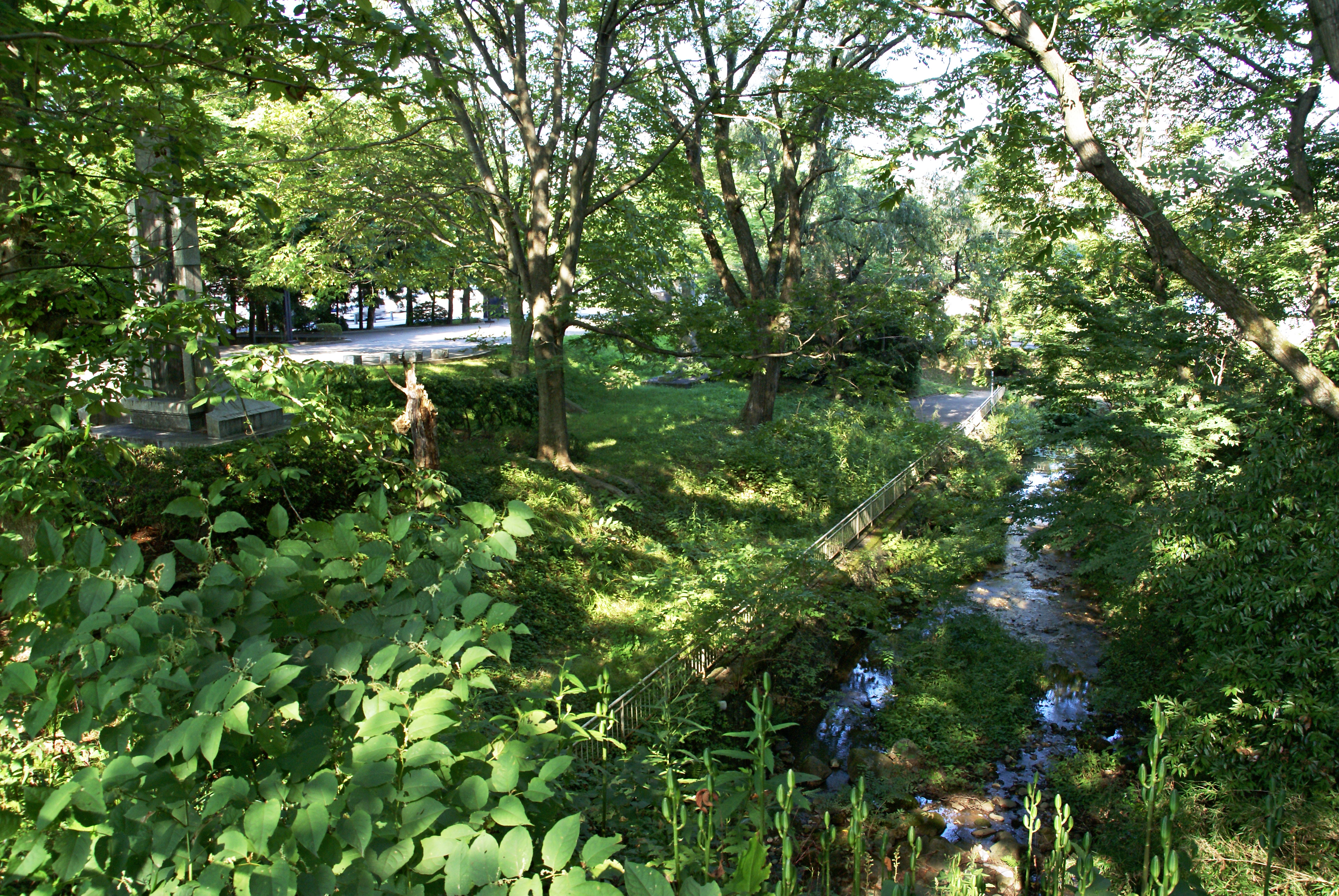 Aoba-yama park in Sendai, Miyagi prefecture, Japan